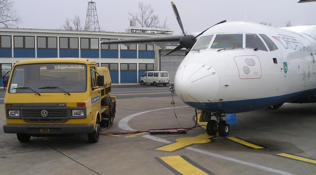 Aircraft Ground power unit